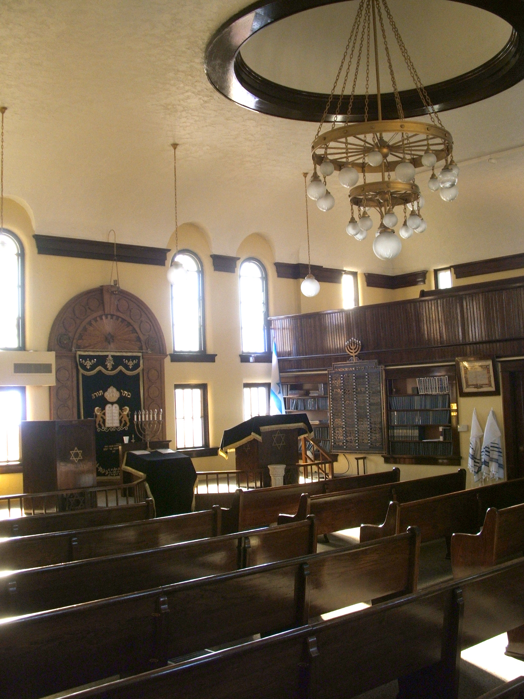 The interior of B'nai Jacob Synagogue in Ottumwa, Iowa, from the north looking toward the Bimah with the Torah ark behind it and the former women's balcony (mechitza) above. When the synagogue was built in 1915, the bimah was in the center of the room, directly below the chandelier.